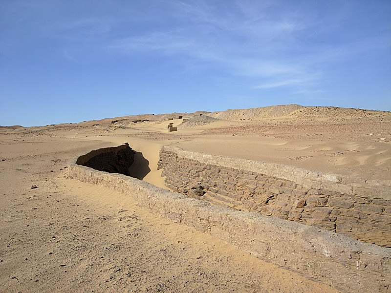 Qanat (aqueduct) of Ain Manawir, el-Kharga depression, Egypt